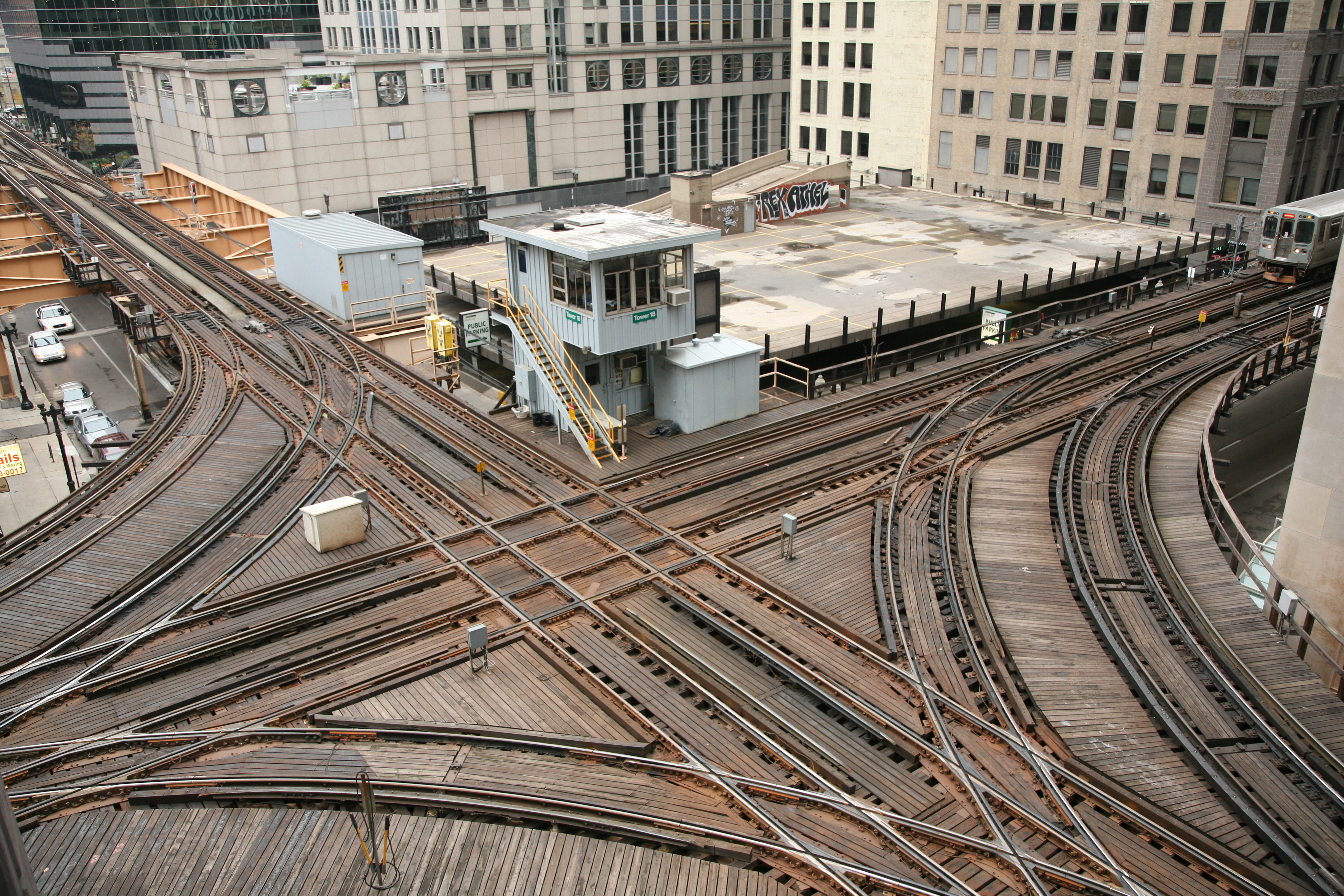 Cross junction in the northwest corner of the Loop in Chicago (Tower 18).